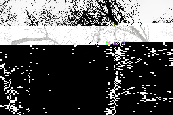 Giltch Art en Argentina.